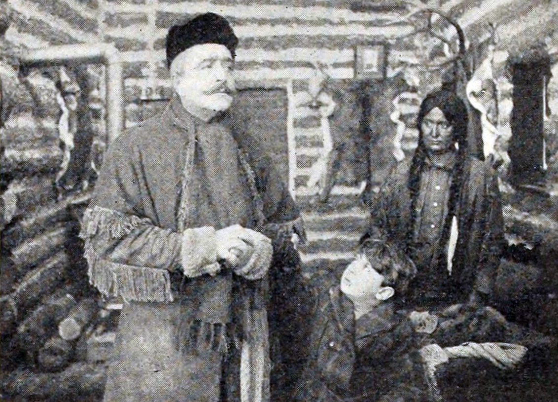 Illustration of an article in The Moving Picture World for the American drama film Fathers of Men (1916).